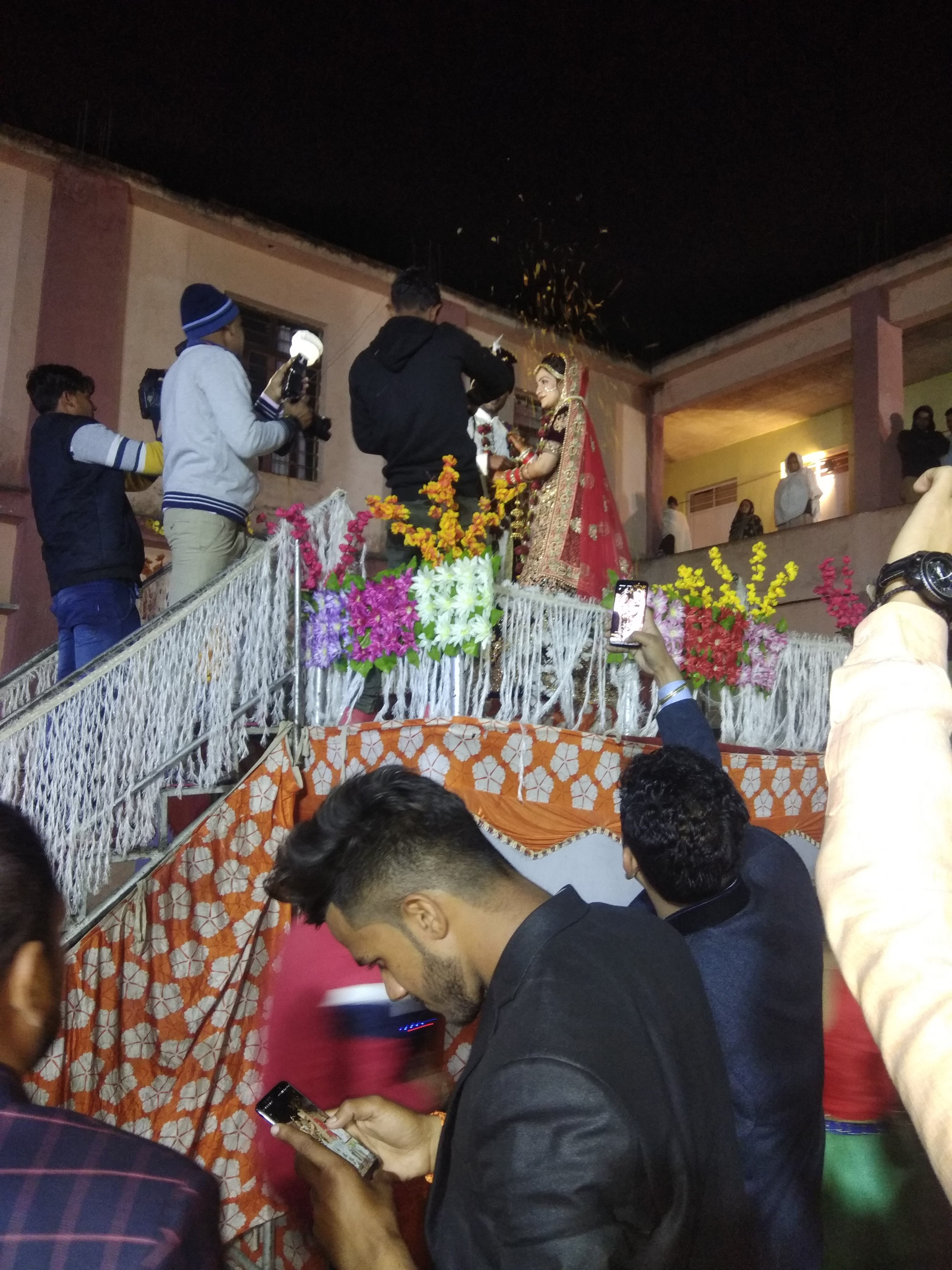 This photo has been taken in the country: India